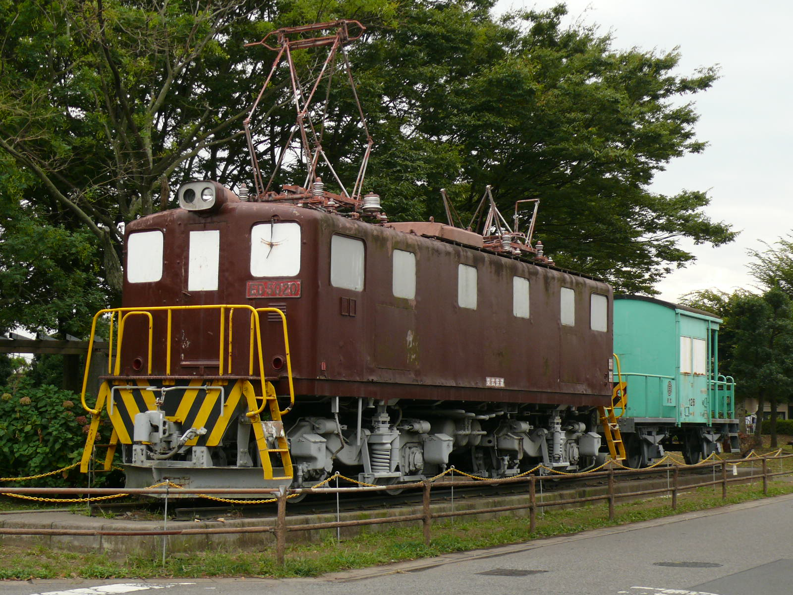 Tobu Railway Type ED5020 Electric locomotive (Japan).